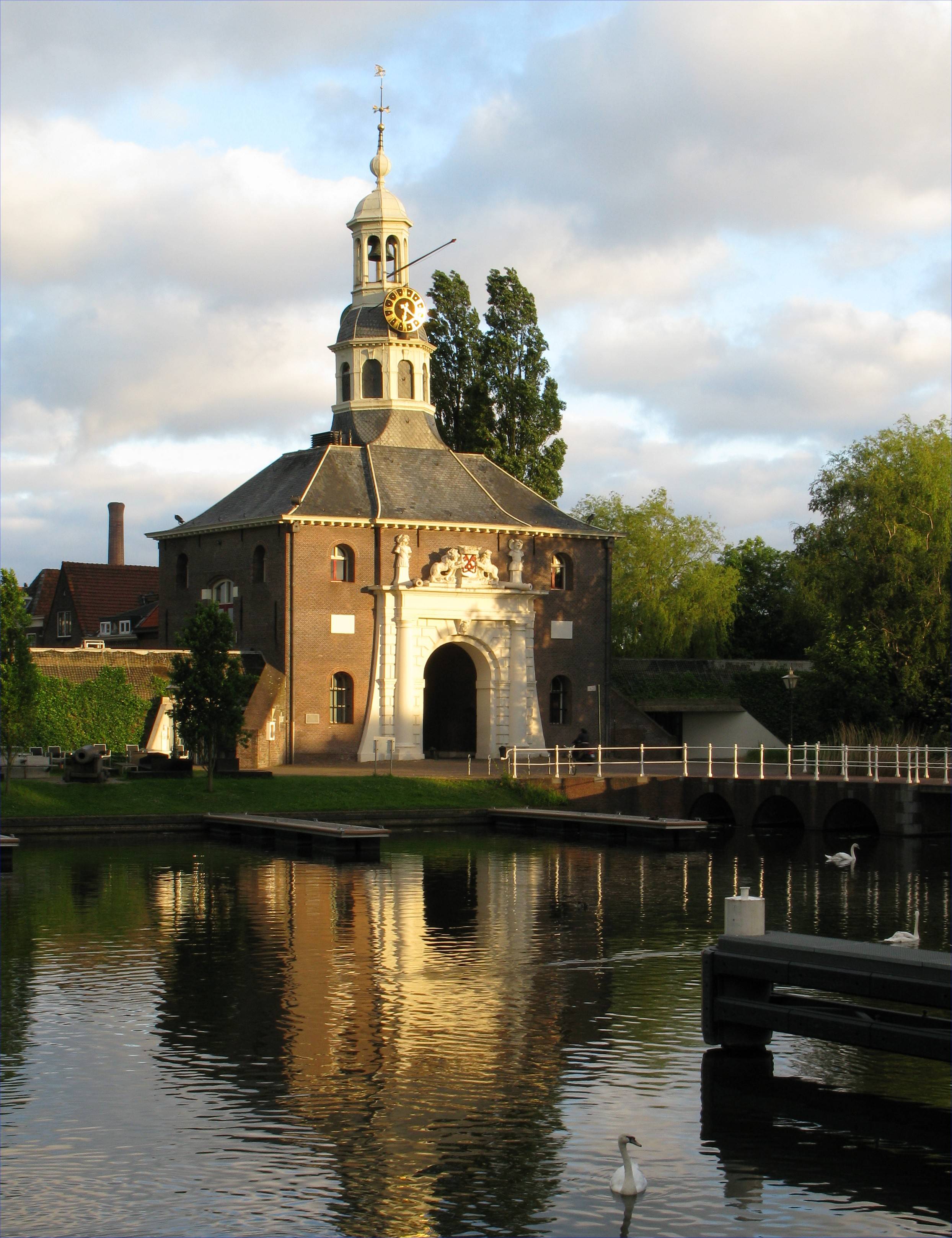 Zeilpoort in Leiden, Netherlands